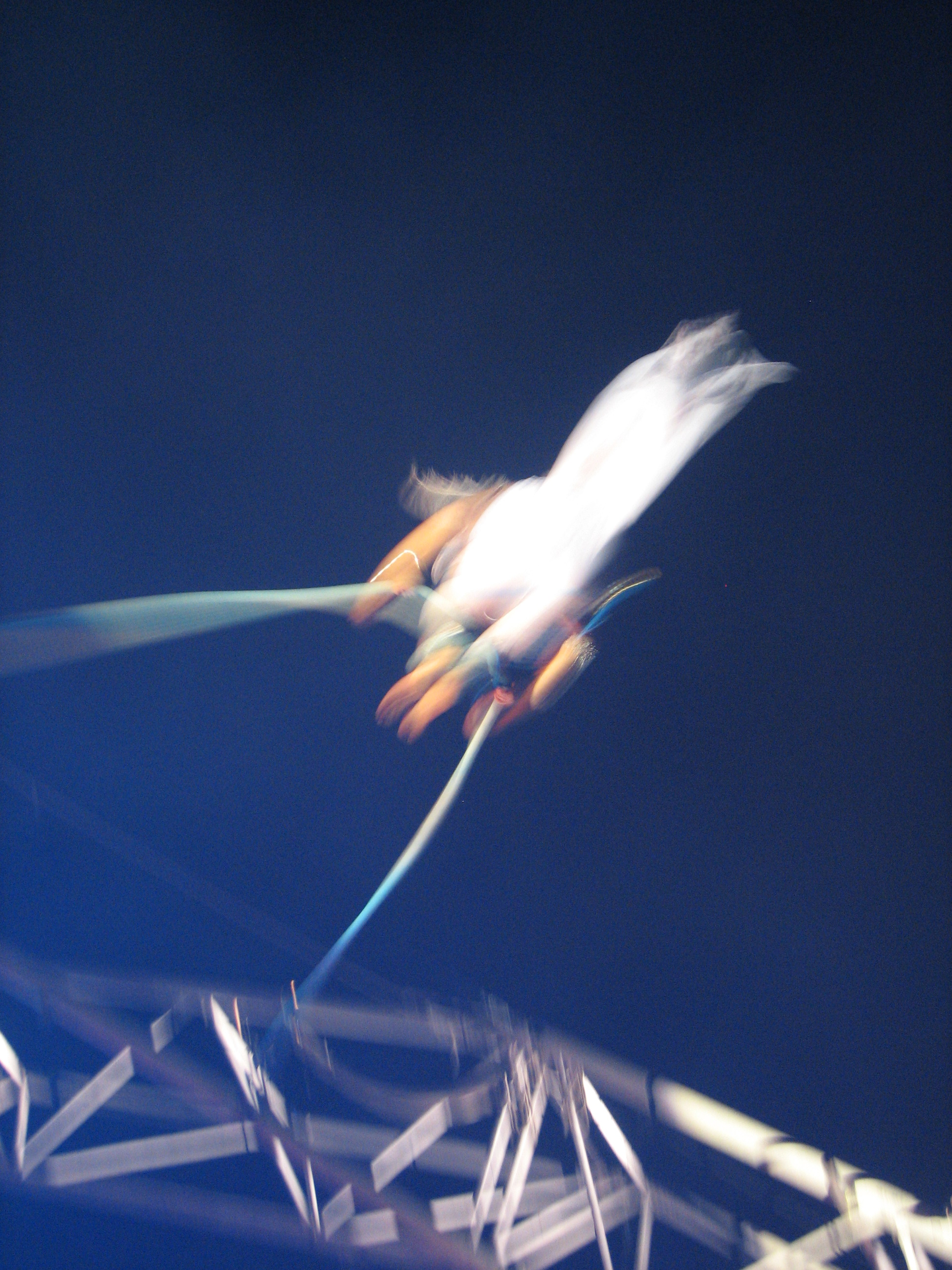 Swinging acrobat at the performance "Circo da Madrugada" in Goteborg by the Brazilian-french group "Les studios de Cirque de Marseilles".